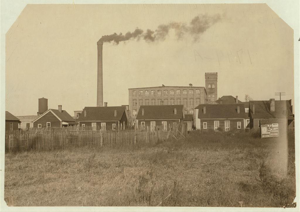 An image taken of "Hell's Half Acre," at the edge of a mills settlement in Avondale, Birmingham, Alabama, showing the housing conditions of mill workers.